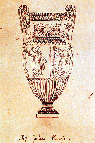 A Drawing keats rendered of an engraving of the Sosibios Vase